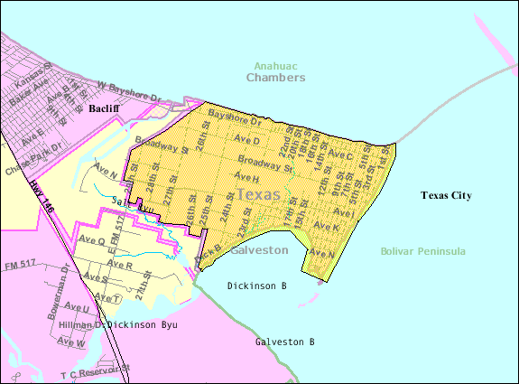 Map of San Leon CDP